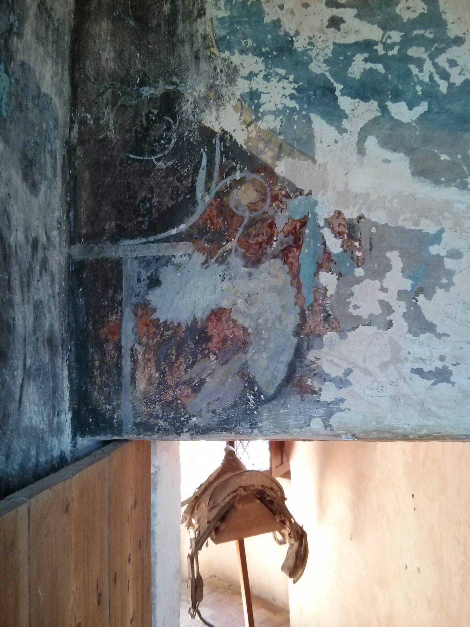 Remains of a fresco, representing a bird eating a grape. It is a reference to Zeuxis, who is known to be one of the best painters of antiquity